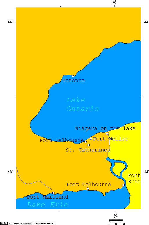 Map of Port Dalhousie, Port Weller, Port Colborne and Port Maitland, past and present entrances to the Welland Canal